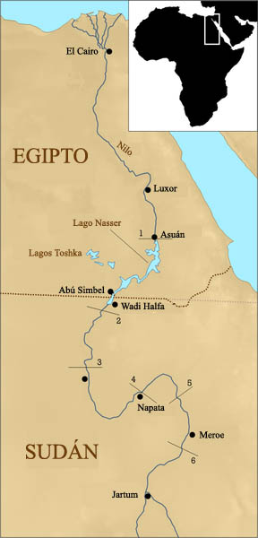 Map of Nubia (in Spanish)